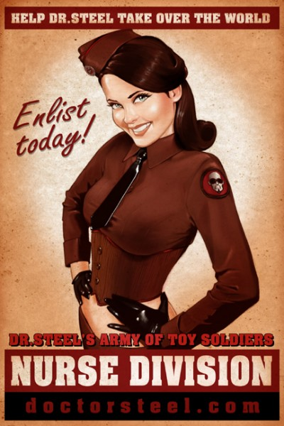 Propaganda Poster art by Dr. Steel